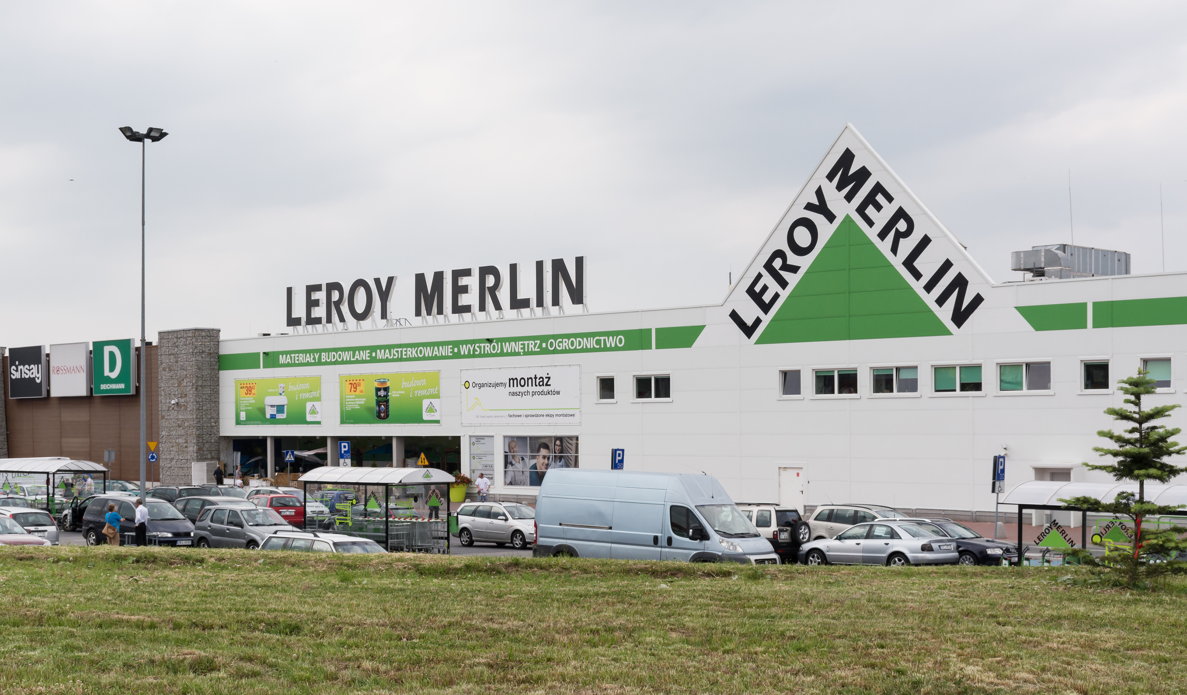 Hypermarket Leroy Merlin in Kłodzko